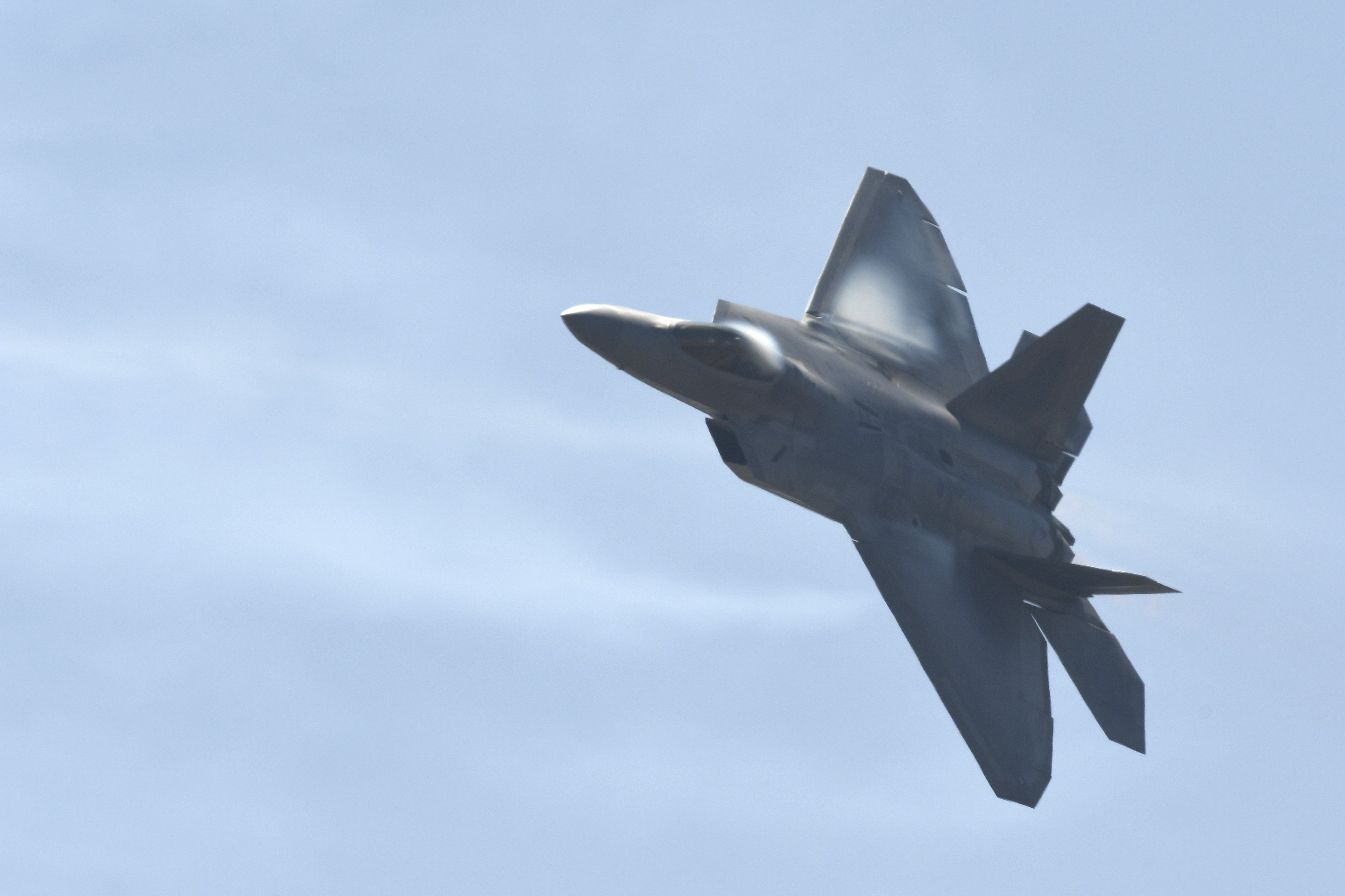 Geelong, AUSTRALIA – A U.S. Air Force F-22 Raptor from Joint Base Elmendorf-Richardson, Alaska, performs a high-speed pass by the crowd during the Australian International Airshow and Aerospace & Defence Exposition (AVALON) March 2. AVALON 2017 is an ideal forum to showcase U.S. defense aircraft and equipment, particularly the latest in fifth generation capabilities such as the F-22 and F-35 Lightning II and it is the largest, most comprehensive event of its kind in the Southern Hemisphere, attracting aviation and aerospace professions, key defense personnel, aviation enthusiasts and the general public. The U.S. participates in AVALON and other similar events to demonstrate the U.S. commitment to regional security and stability. (U.S. Air Force photo/Master Sgt. John Gordinier) Unit: Pacific Air Forces Public Affairs DVIDS Tags: AVALON; AVALON2017; AVALON 2017